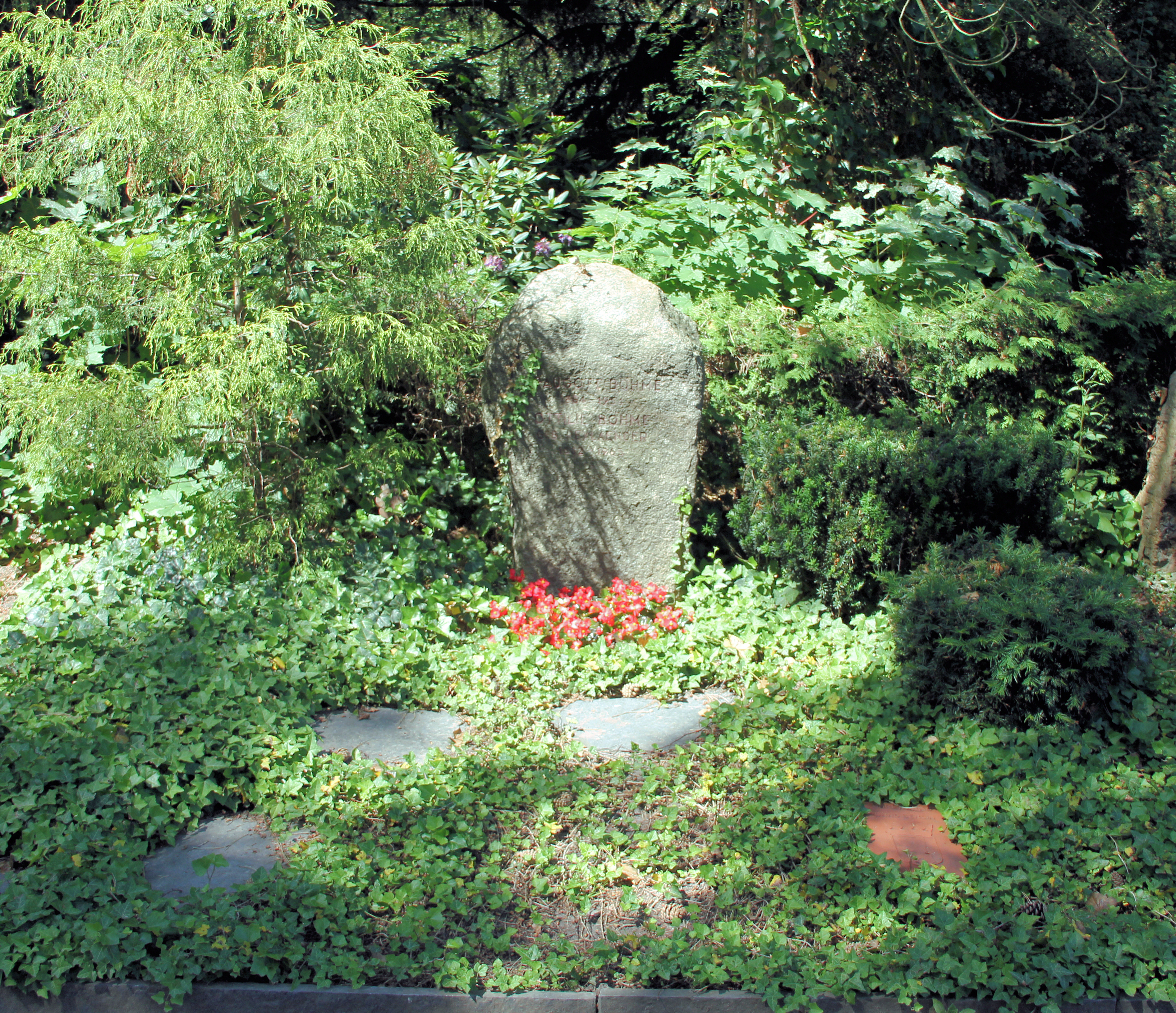 "Ehrengrab" (grave of honor), Traugott Böhme, Thuner Platz 2-4, Berlin-Lichterfelde, Germany Koordinate:52°25′24″N 13°17′45″E / 52.42333°N 13.29583°E